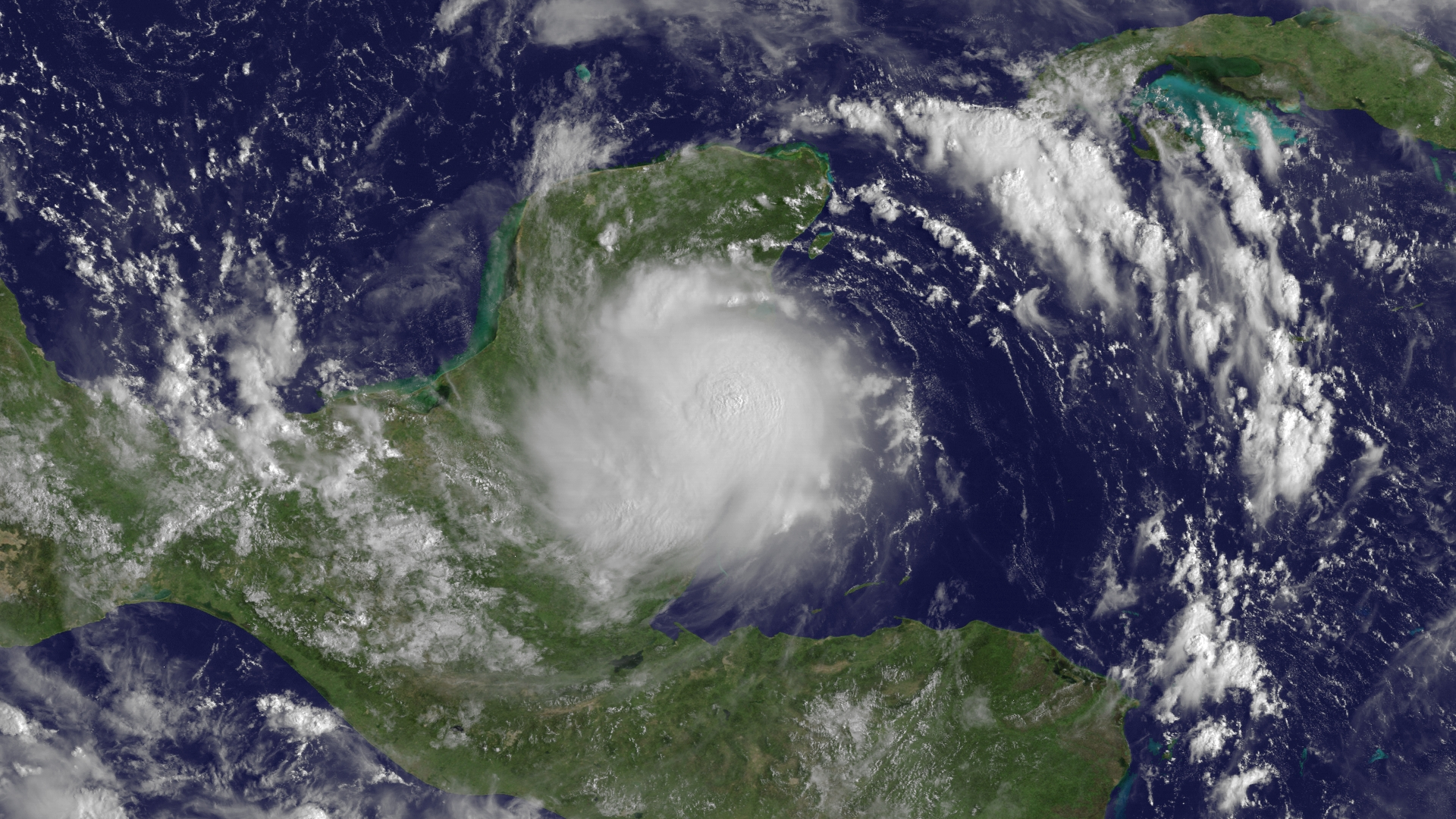 Tropical Storm Karl came ashore on Mexico's Yucatan Peninsula this morning with sustained winds at 55 knots. This image from GOES-East was taken at 1415Z.